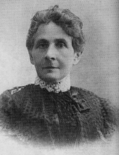 Mother of russian Ewhite movement leader Anton Denikin